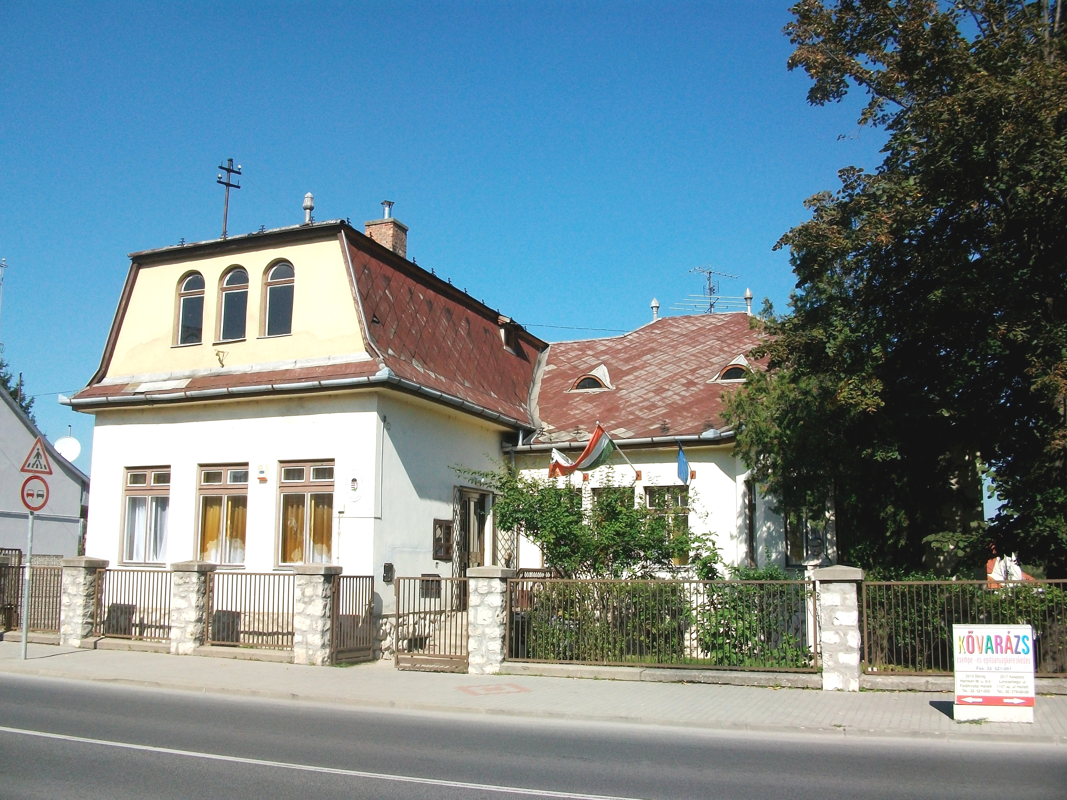 Ferenc Erkel Conservatoire, Dorog, Hungary